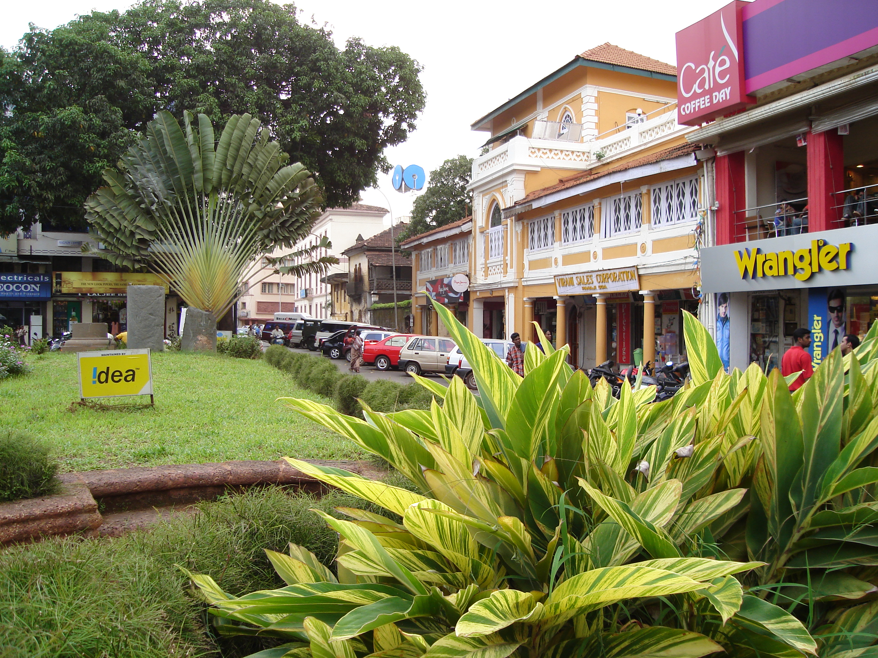 Photo from a street of Panjim (Panaji), the state capital of Goa, on the west coast of India.